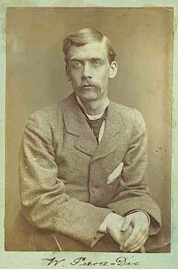 Portrait of William Peirce Dix